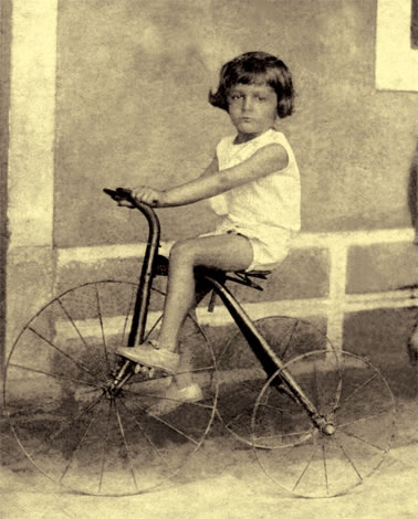 Paulo Freire, ten years old